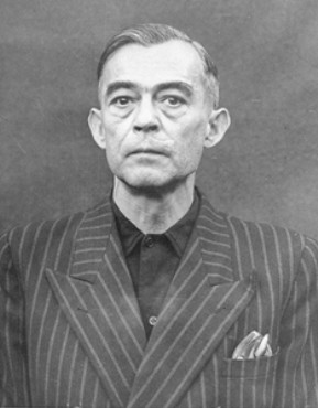 Portrait of Kurt Blome as a defendant in the Medical Case Trial at Nuremberg. [Photograph #07326], Portrait von Kurt Blome als Angeklagter im Nürnberger Ärzte Prozess. [Fotografie#07326]